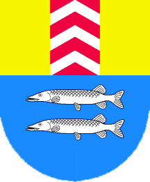 Per fess, Or on a pale Gules three Chevrons Argent, and Azure two Pike nainan proper.